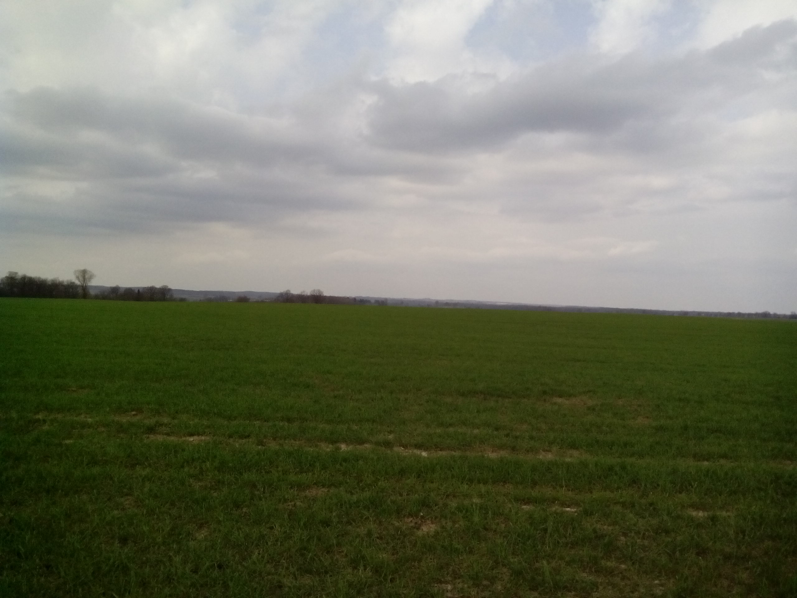 The view from the redut number 2 year 2014